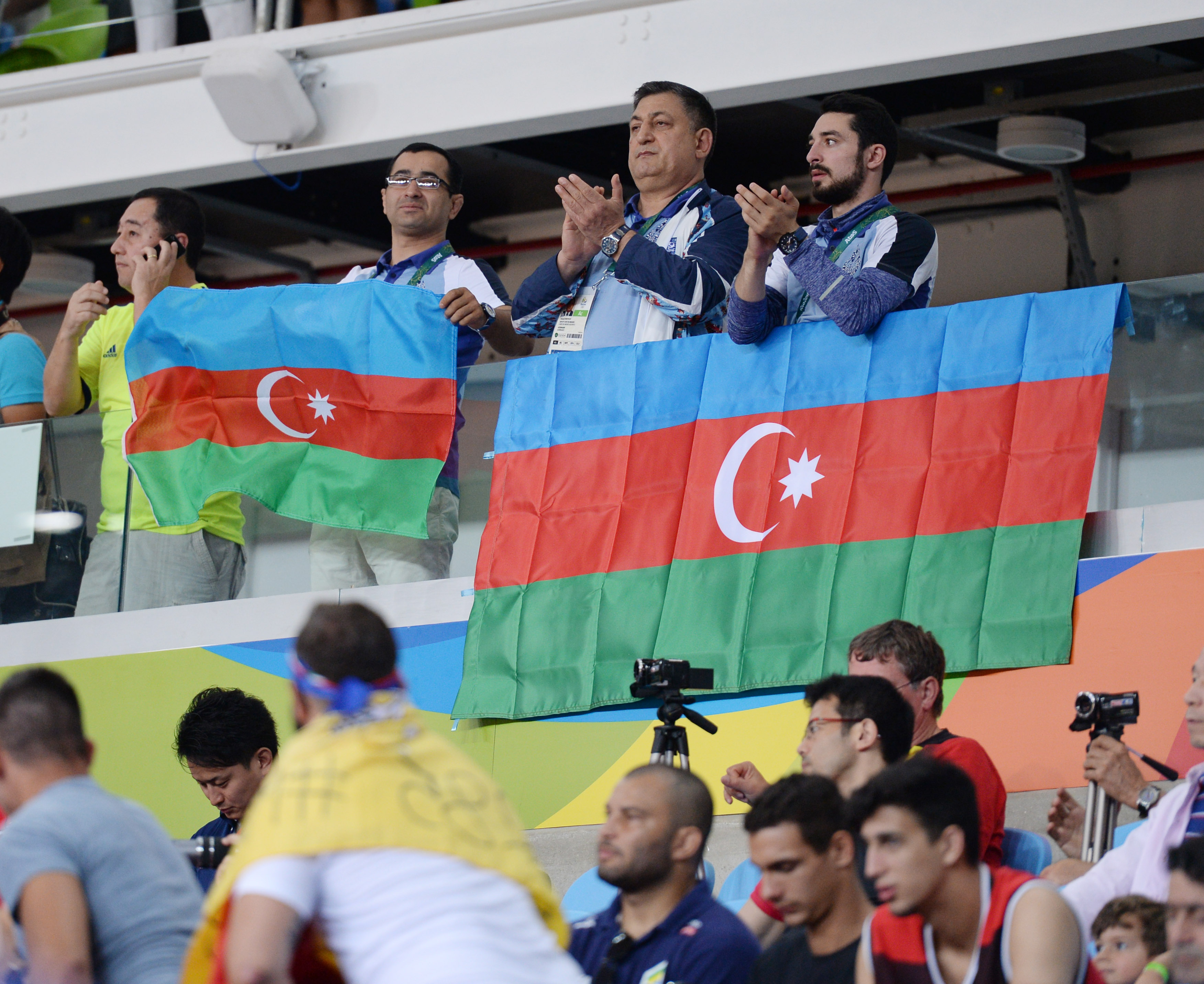 Judo at the 2016 Summer Olympics, Safarov vs Postigos